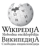 A logo for Wikipedia in the Serbo-Croatian language.